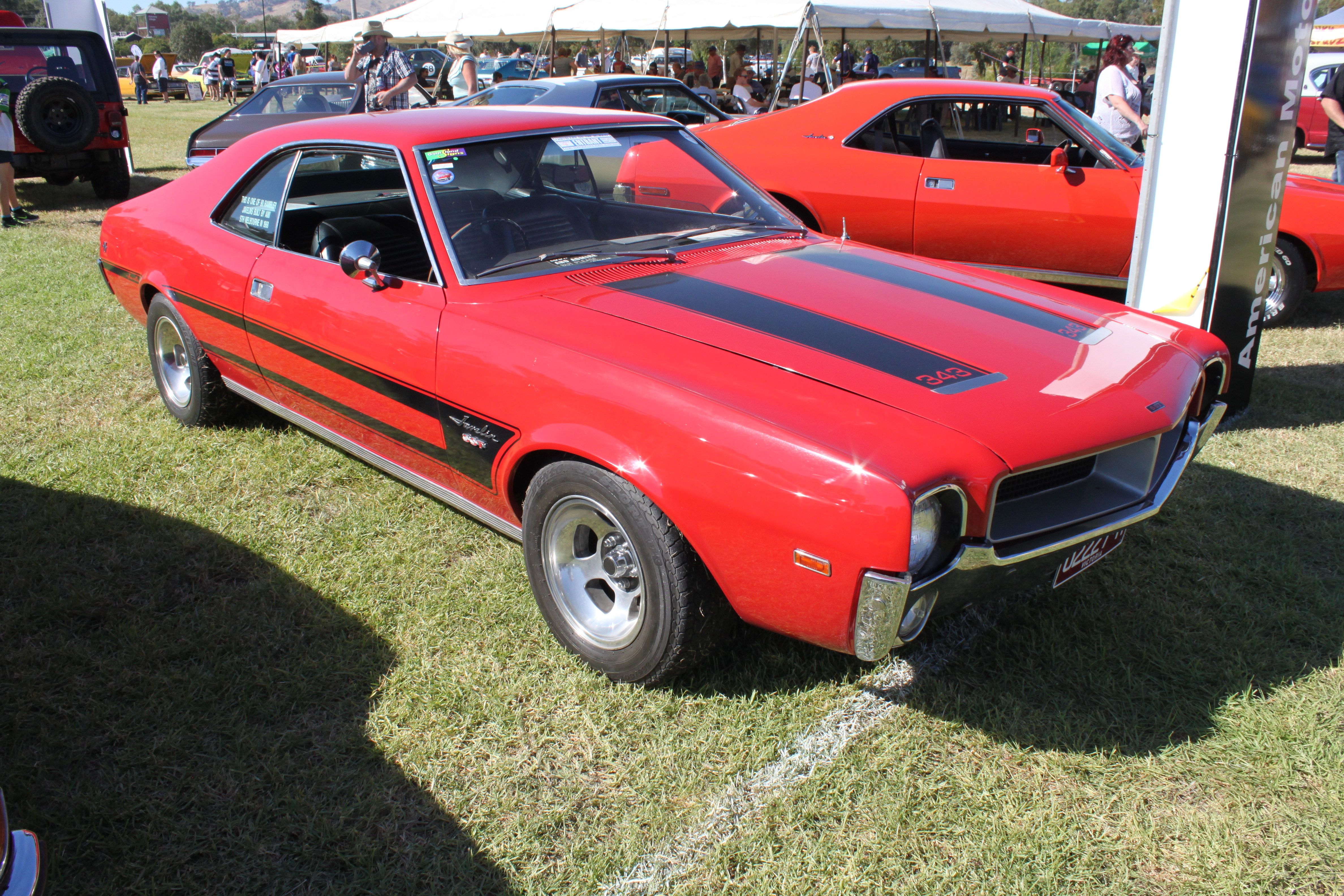 Chryslers on the Murray 2015